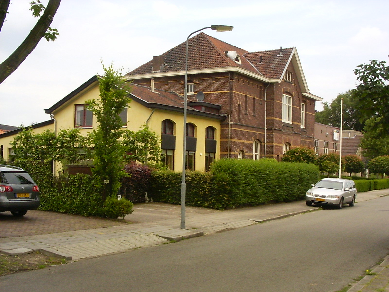 Former train station (1903-1937), Voorthuizen